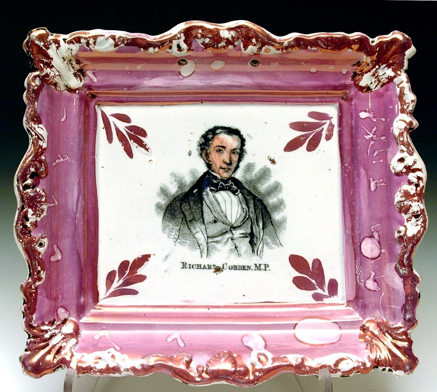 Sunderland Pottery commemorative plates